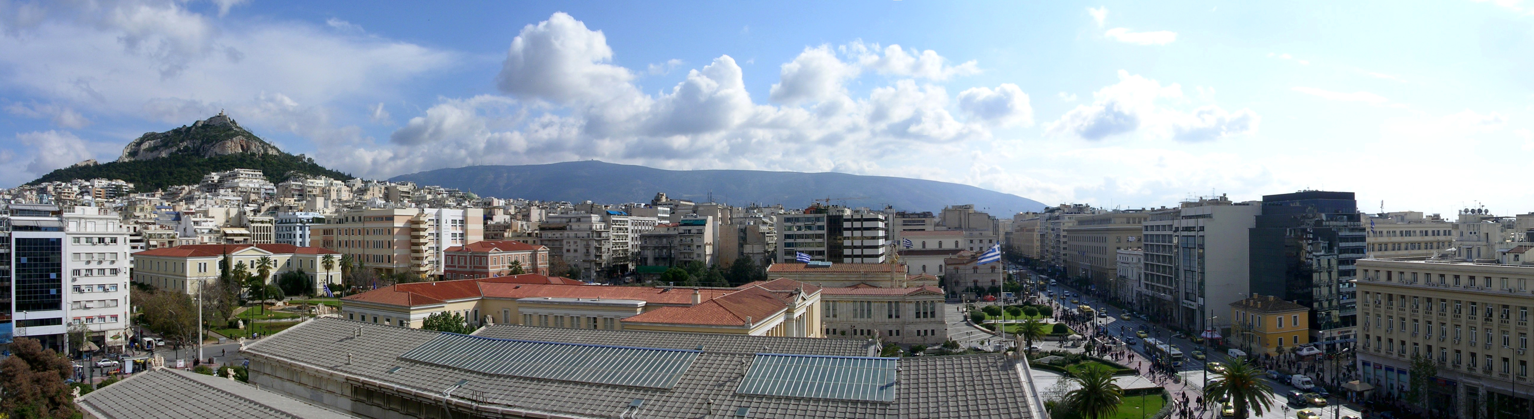 Panoramic view of Lycabettus Mount, Academias Street, Panepistimiou Street.